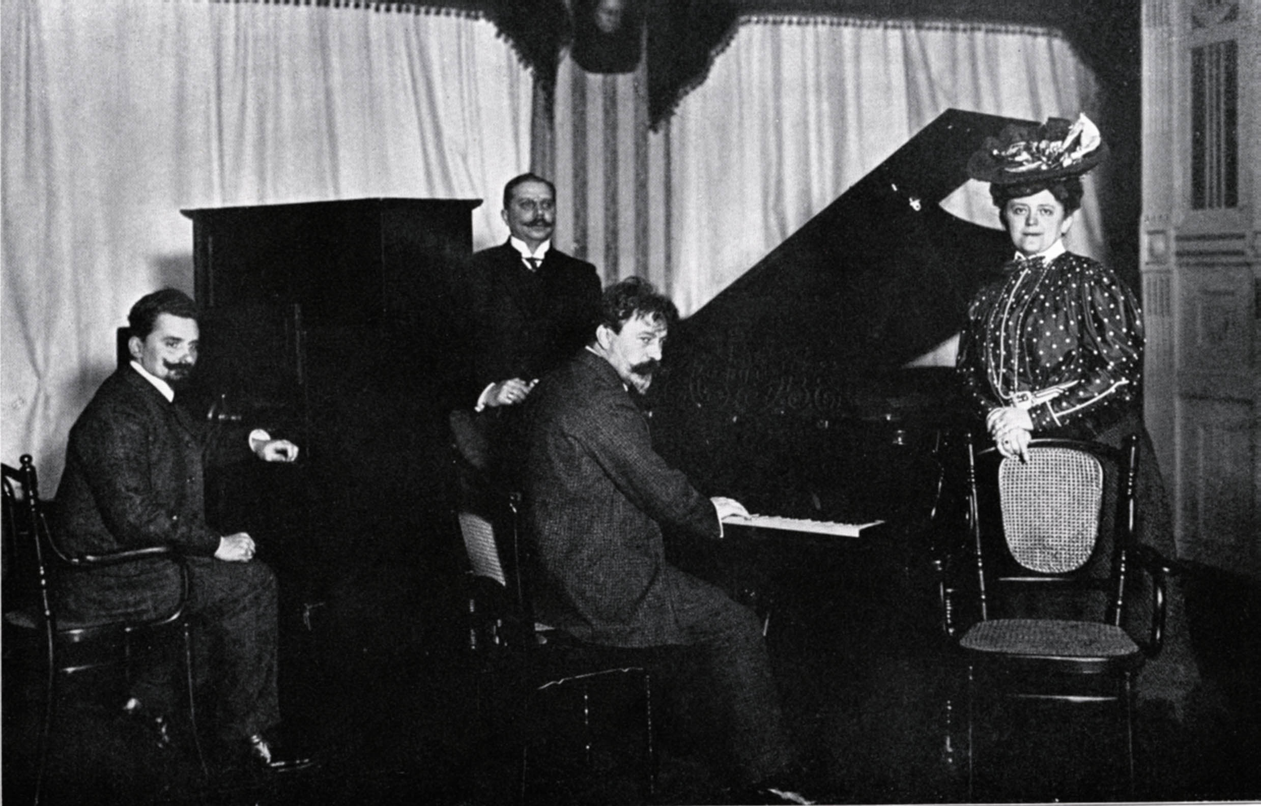 Arthur Nikisch recording for Welte-Mignon Febr. 19, 1906 in Leipzig.Left Karl Bockisch, beneath Hugo Popper, Arthur Nikisch, Mrs. Nikisch.